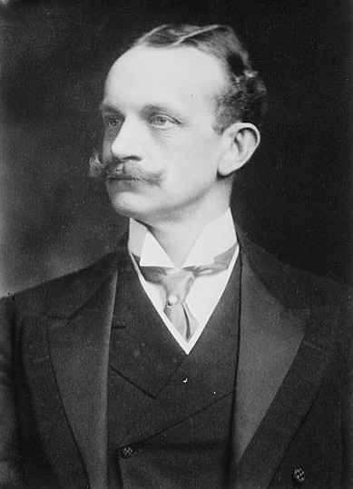 Count Johann Heinrich von Bernstorff (1862 – 1939), German ambassador to the United States and Mexico (1908-1917)